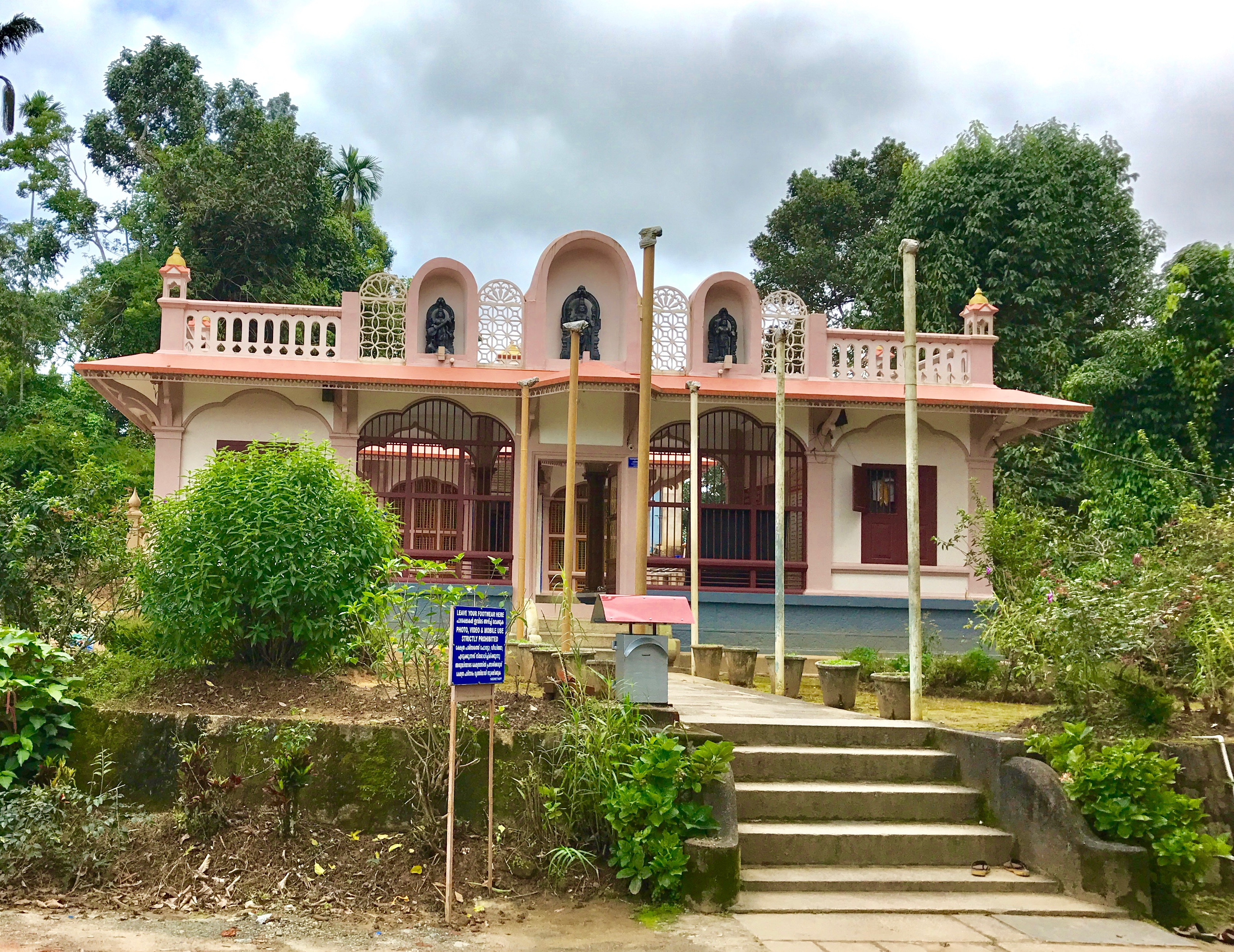 Anantanath Swamy temple is a syncretic building wherein local Jains revere the Tirthankaras of Jainism along with various Jain and Vaishnava Hindu gods and goddesses. The front porch shows three statues, of Saraswati, Vishnu and Lakshmi. Vishnu avatar iconography is also found inside the temple along with those of Jain Tirthankaras. In the sacrum sanctum are Anantnatha, the 14th Tirthankara along with other Tirthankara. The syncretic tradition is old, and the sect had a medieval era stone temple that was damaged by the Islamic army of Tipu Sultan and is now in ruins few kilometers away. The community moved and relocated the temple and the deities to the current location. It is an active Jain temple in Puliyarmala, near Kalpetta in the Wayanad district in the state of Kerala in India. Photography inside the temple is prohibited by the Government of Kerala, the outside photography required special official permission which was duly requested and granted.